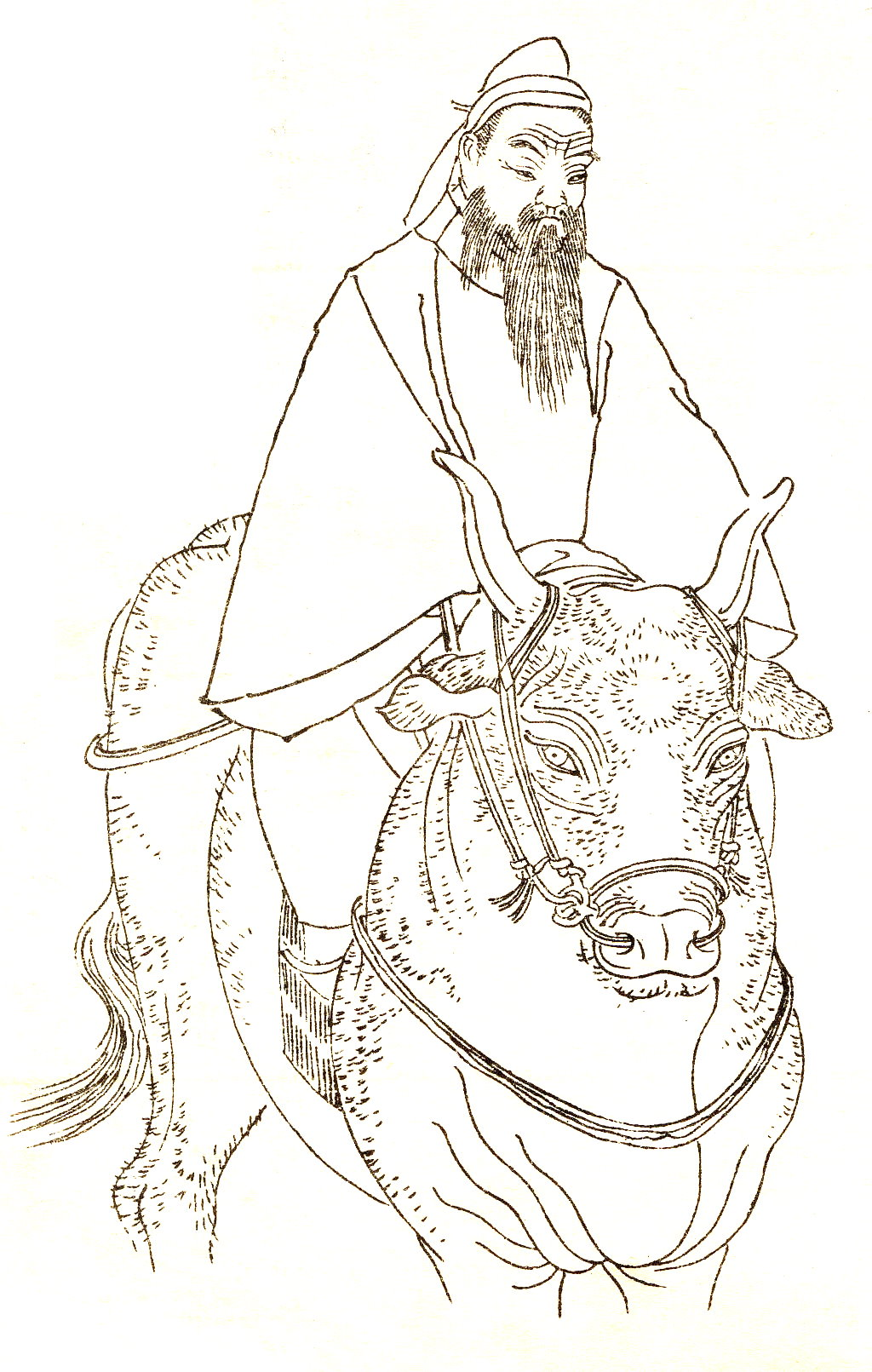 Sugawara no Kiyogimi (菅原清公, Sugawara no Kiyogimi? 770-842) was a Japanese Heian era courtier and bureaucrat.This picture was drawn by Kikuchi Yosai（菊池容斎） who was a painter in Japan.